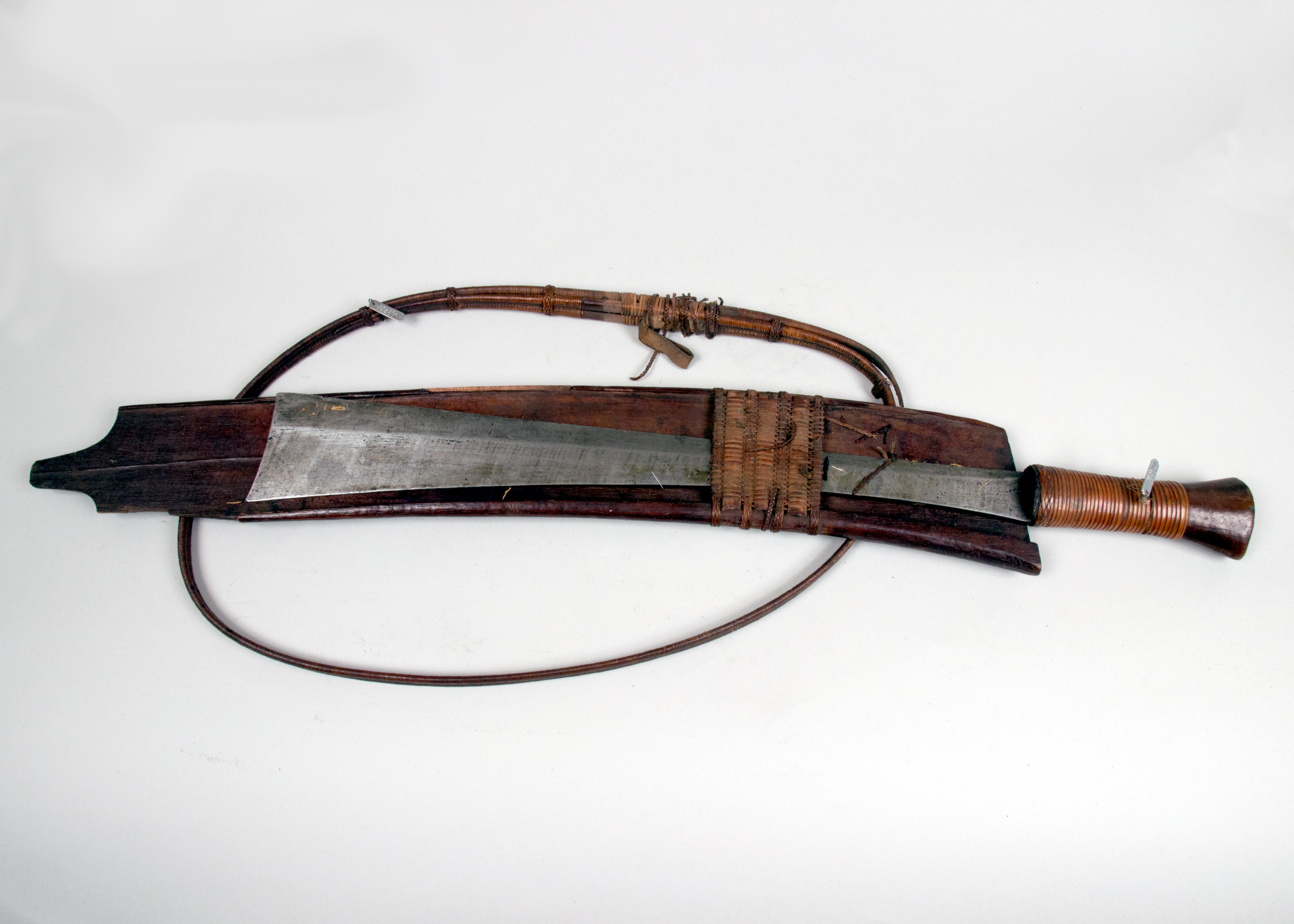 Indian, Assam, Naga Hills; Sword (Dao) with scabbard and baldric; Swords